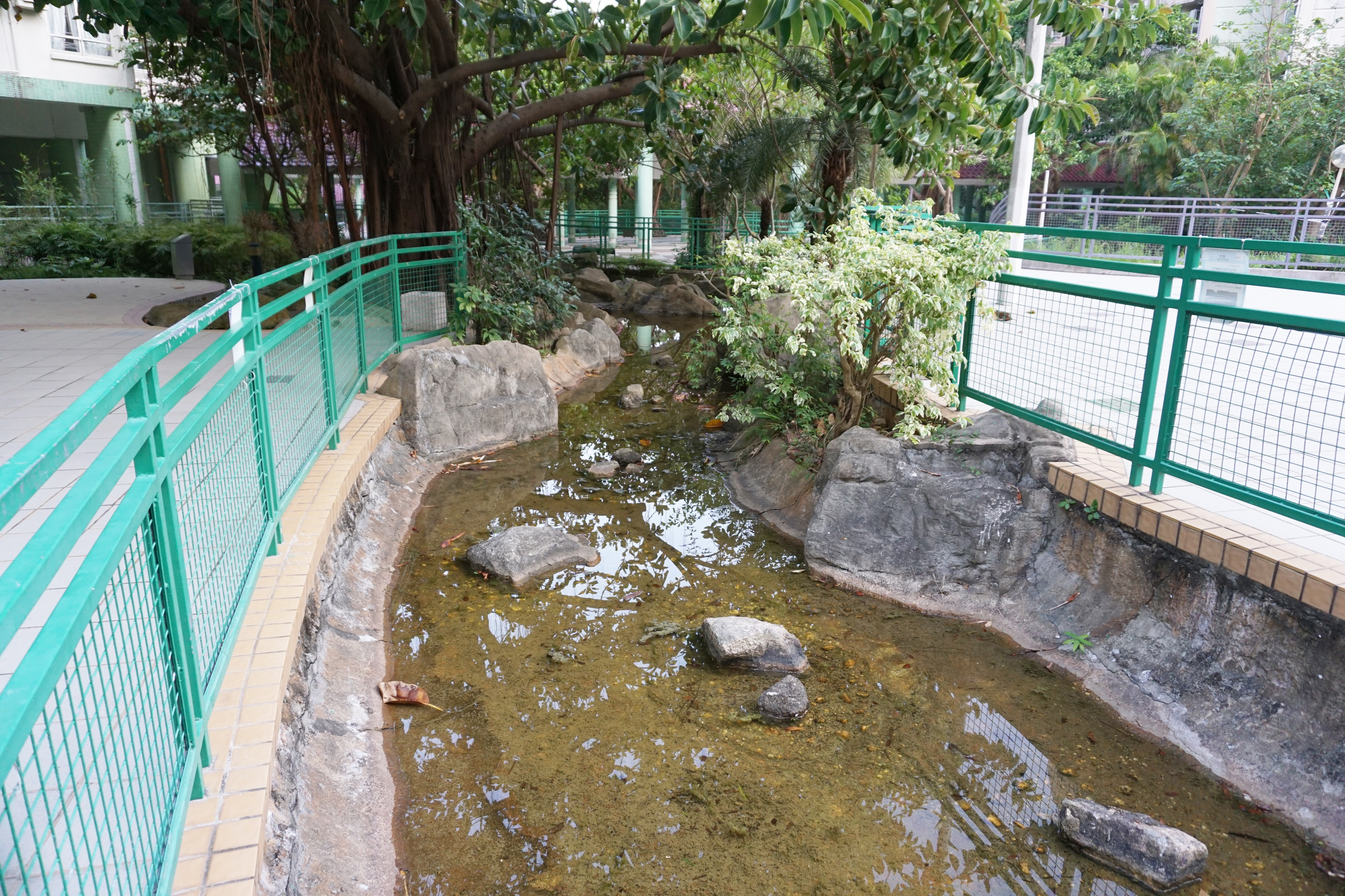 Ma Hang Estate in Stanley, Hong Kong.